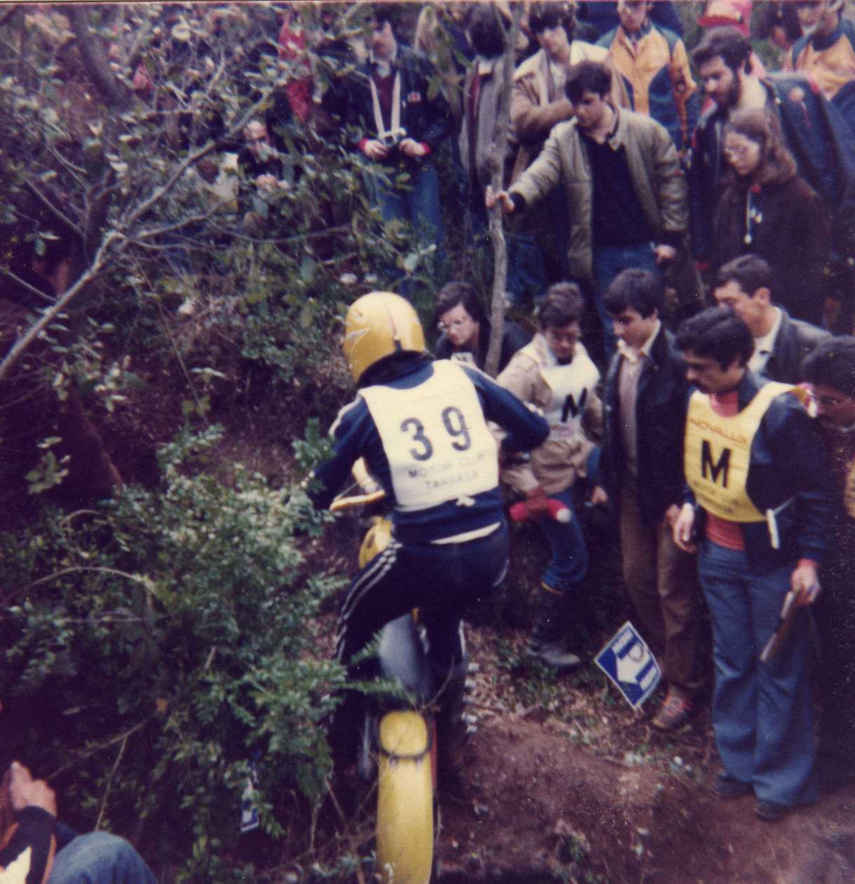 Albert Juvanteny with his yellow OSSA TR 80 prototype at XIII "Trial de Sant Llorenç" in Matadepera (Catalonia) on March 11, 1979. It was the 5th race of the Trial World Championship. He finished 26th.This was the section #19, called "Many", near Rellinars.